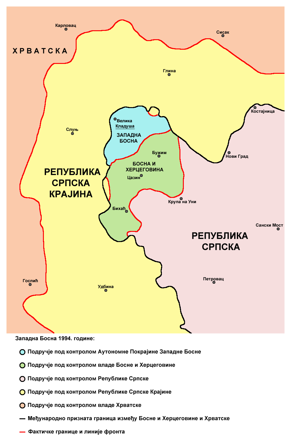 Map of Western Bosnia (1994).